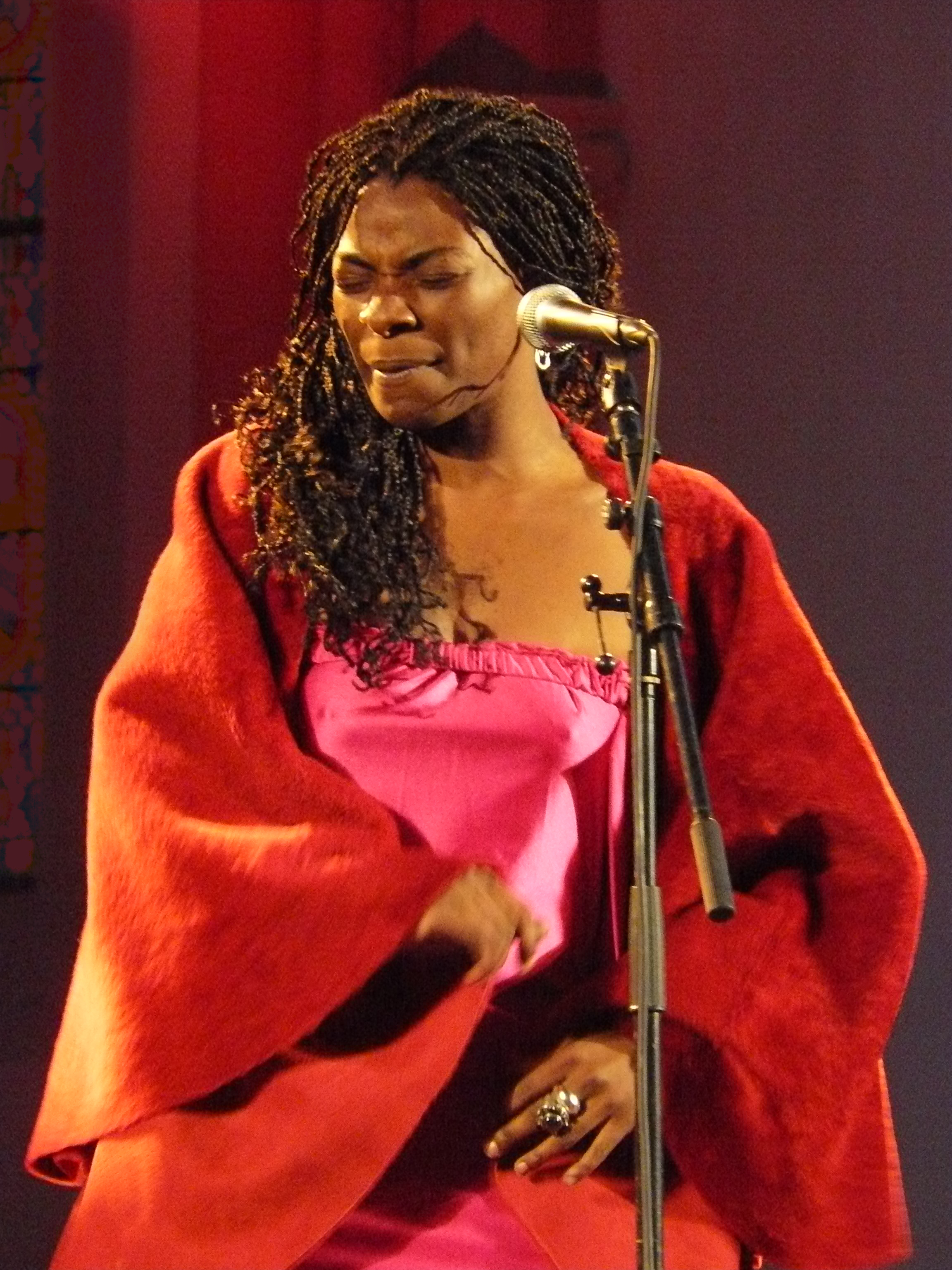 Concha Buika, a Spanish singer of équato-Guinean origin. She mixes the flamenco with the soul, the jazz, the funk and the copla. Concert in the Church of Villars ( 42 ) France, during the Rhino Jazz festival